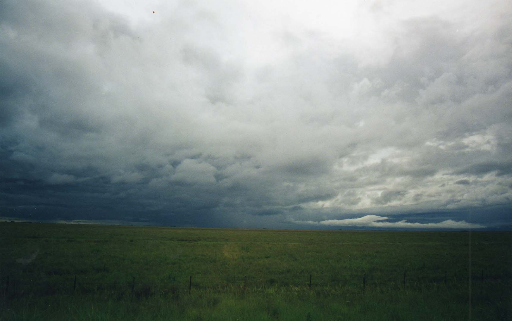 Los Llanos Venezuela. A thunderstorm tracks across the plain.